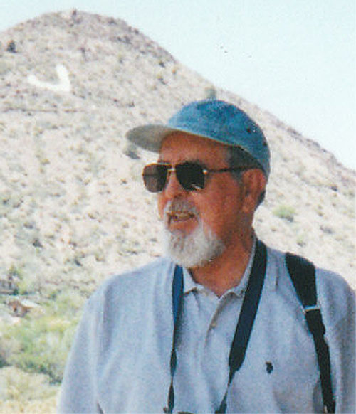 Jacinto Quirarte, art historian and author, visiting Jerome, Arizona in 2001